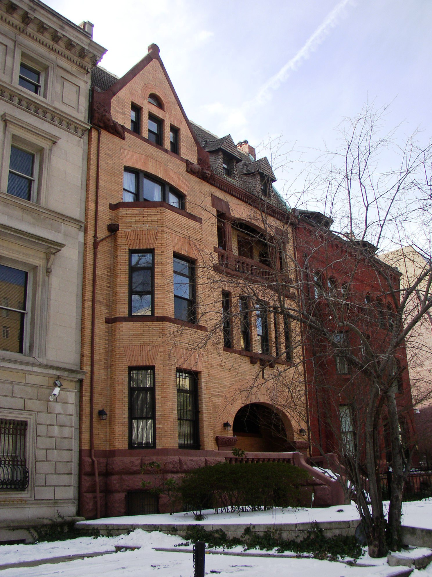 Embassy_of_Trinidad_and_Tabago to the US. Located on Embassy Row (Massachusetts Avenue) in Washington, DC. Photo taken by uploader in February, 2007. All rights released. Williamborg 16:56, 18 February 2007 (UTC)